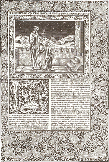 A Treatise on the Astrolabe - pg. 397